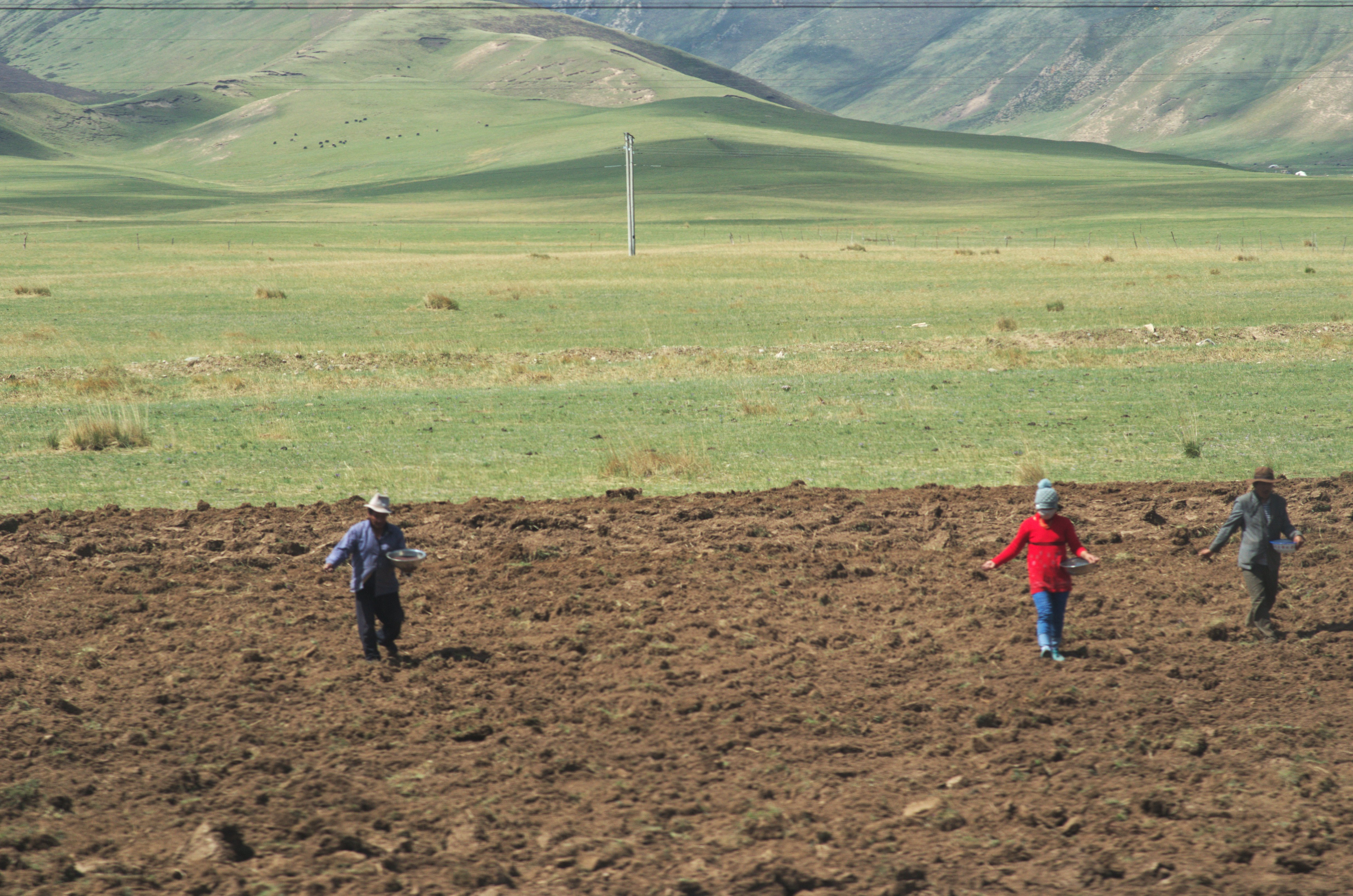 Some local farmers in steppe, near Qinghai Lake (or Kokonor Lake in mongol) in Qinghai province.